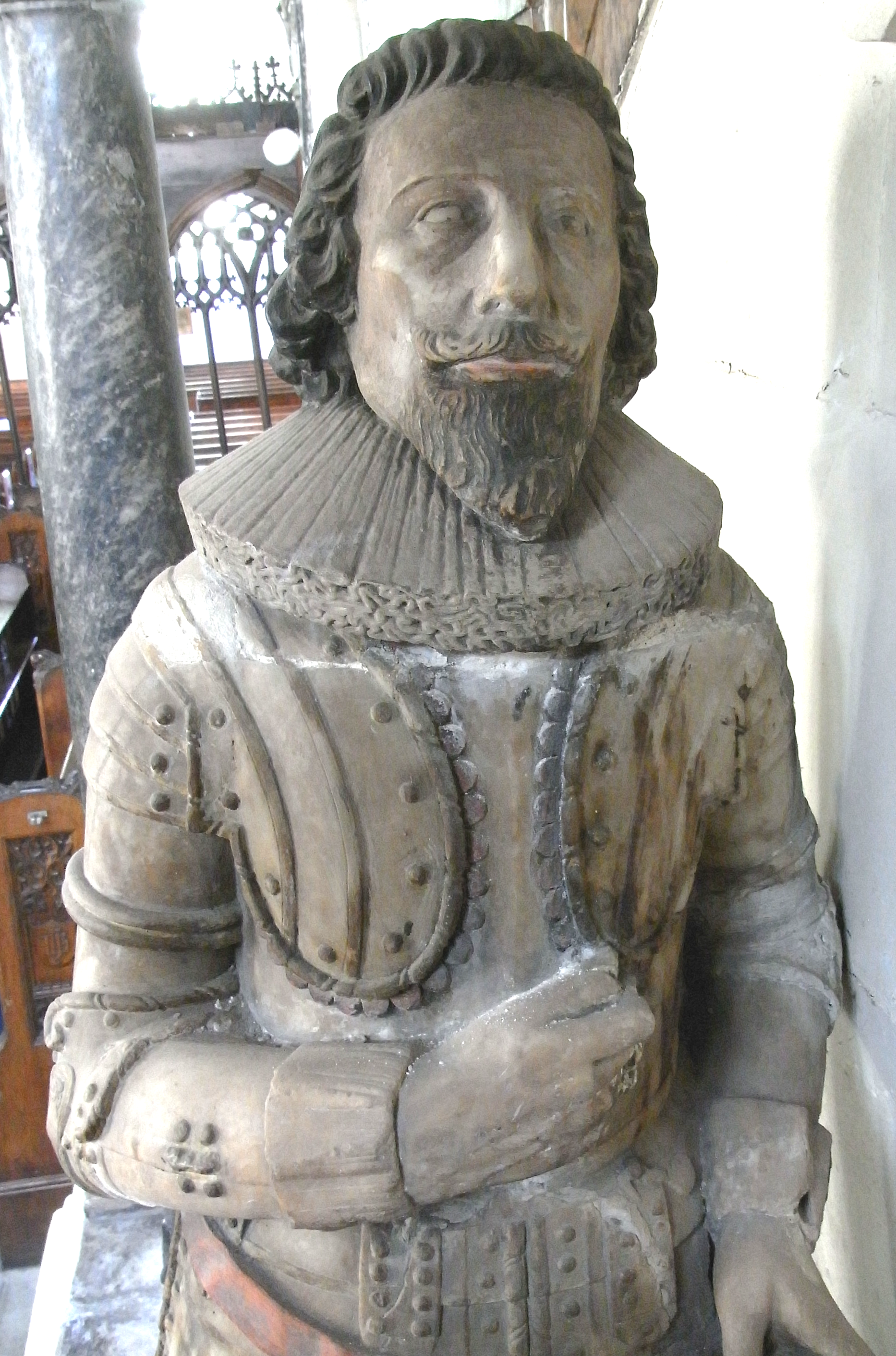 Effigy in Pilton Church, Devon, of Sir Robert Chichester (1578-1627) of Raleigh in the parish of Pilton. North wall of chancel